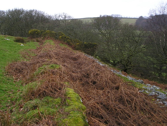 Craig-gwrtheyrn Camp, near to Llandysul, Ceredigion/Sir Ceredigion, Great Britain. Remains of part of the ramparts of this iron-age hill fort.